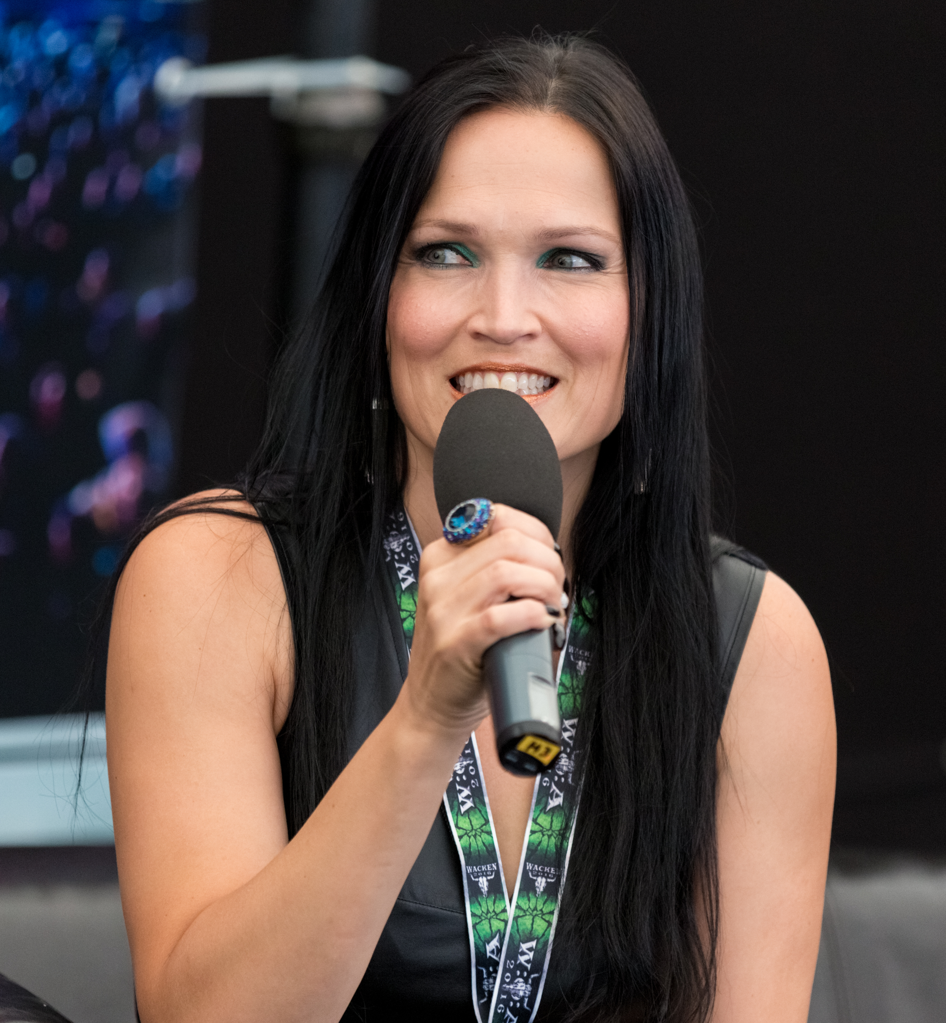 Tarja - Wacken Open Air 2016